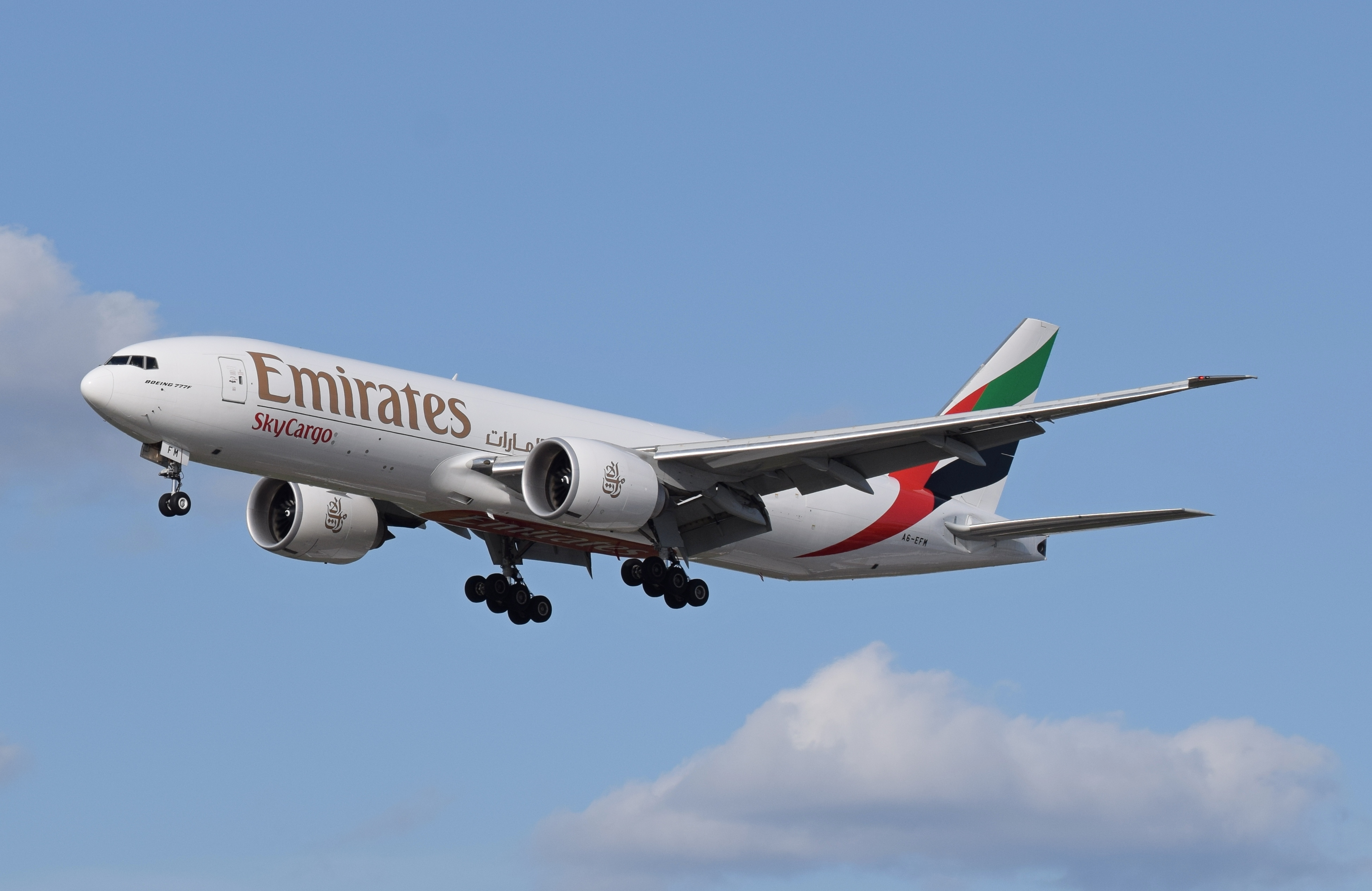 Emirates Boeing 777F (A6-EFM) arrives London Heathrow Airport, England.